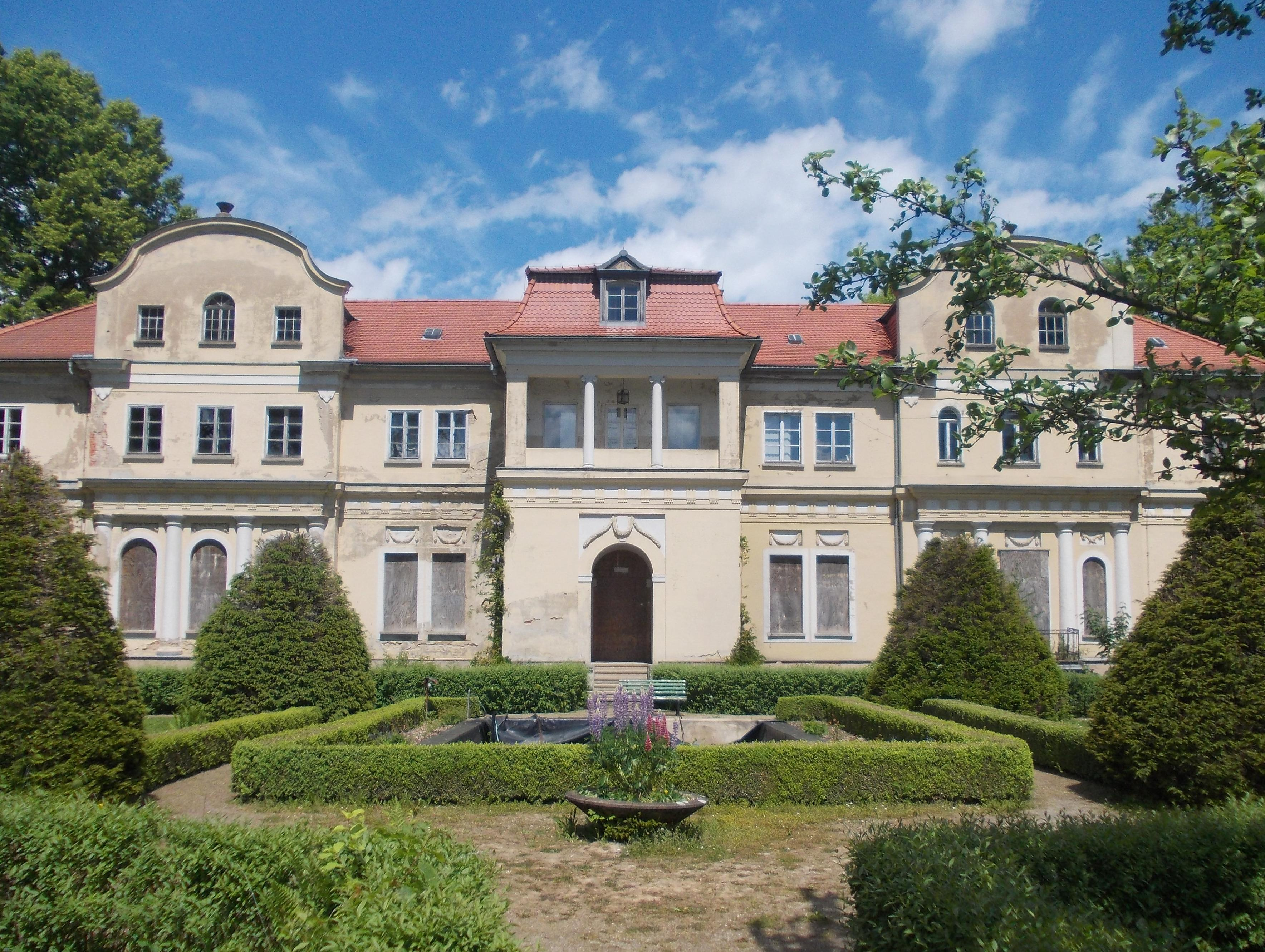 Tannenfeld Castle (Löbichau, Altenburger Land district, Thuringia)